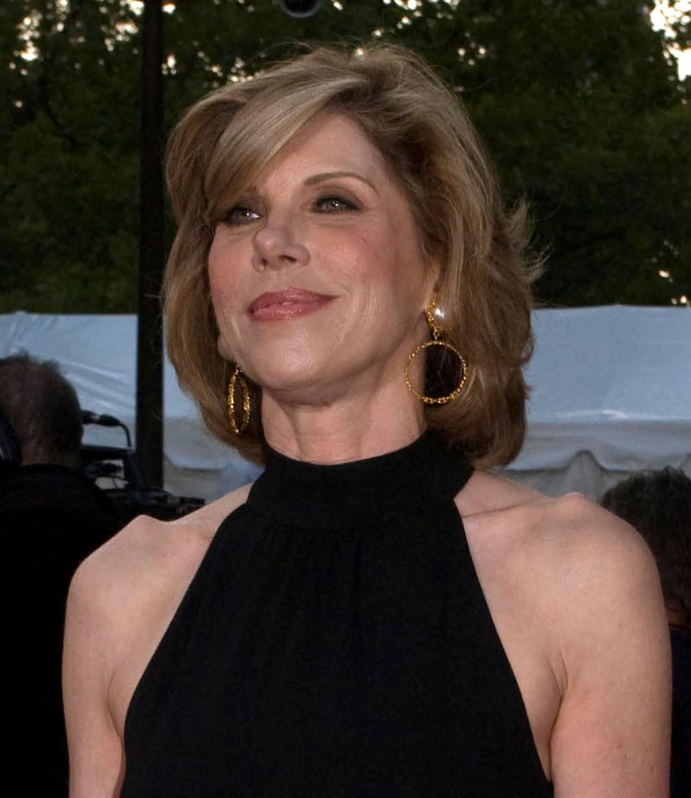 Christine Baranski at the Metropolitan Opera opening in 2008. © Rubenstein, photographer Martyna Borkowski